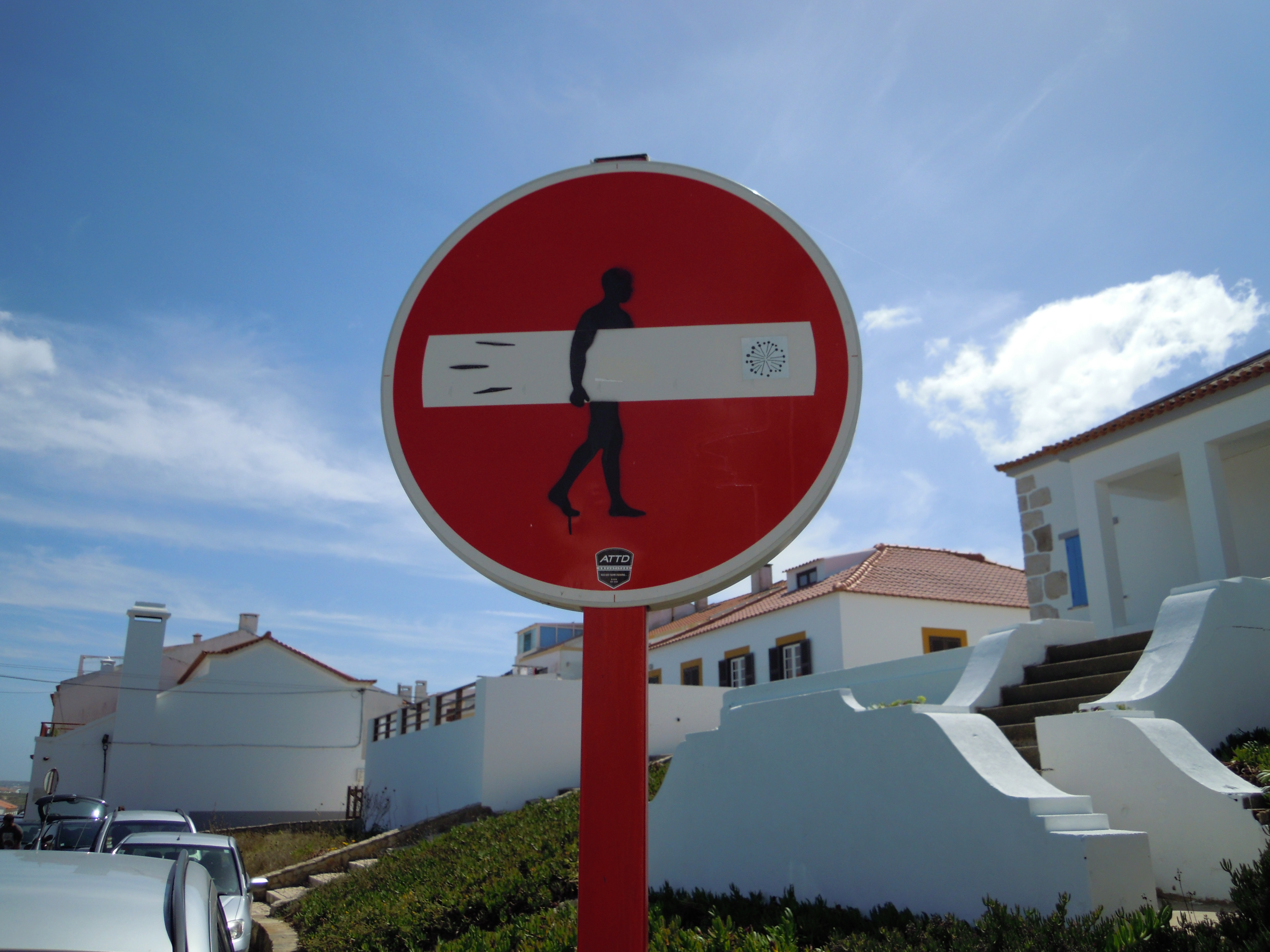 A street sign in Baleal Island with graffiti emphasising its attraction to surfers